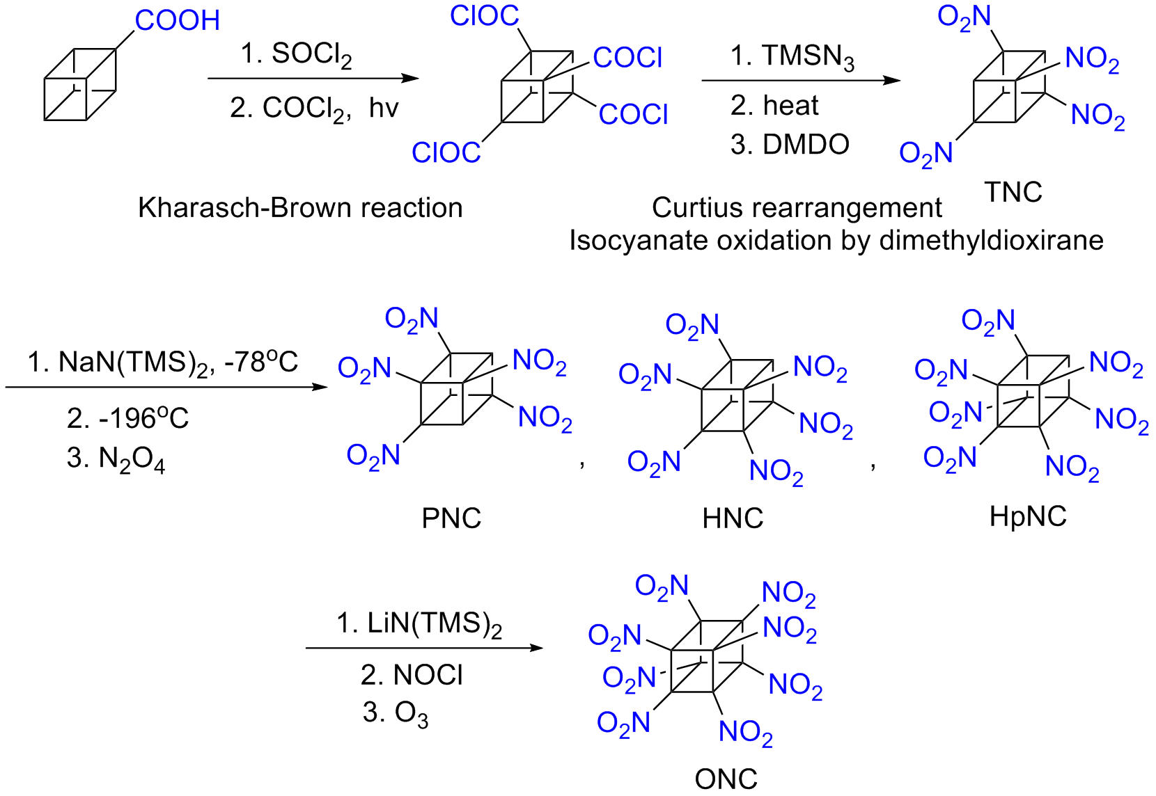 Synthesis of octanitrocubane